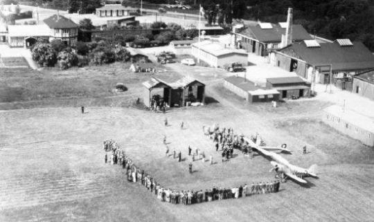 The 25 years aniversary of Hærens Flyvertropper (Danish Army Air Corps) at Kløvermarken in Copenhagen in 1937.